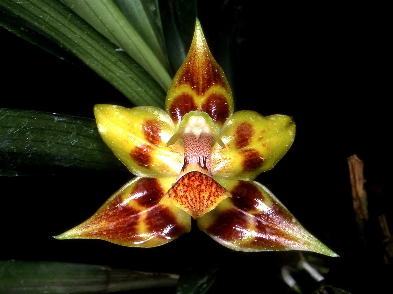 Huntleya lucida - single flower